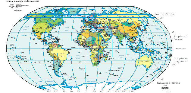 Great circles of latitude. Map is a Robinson projection with standard parallels +/- 38 degrees latitude.